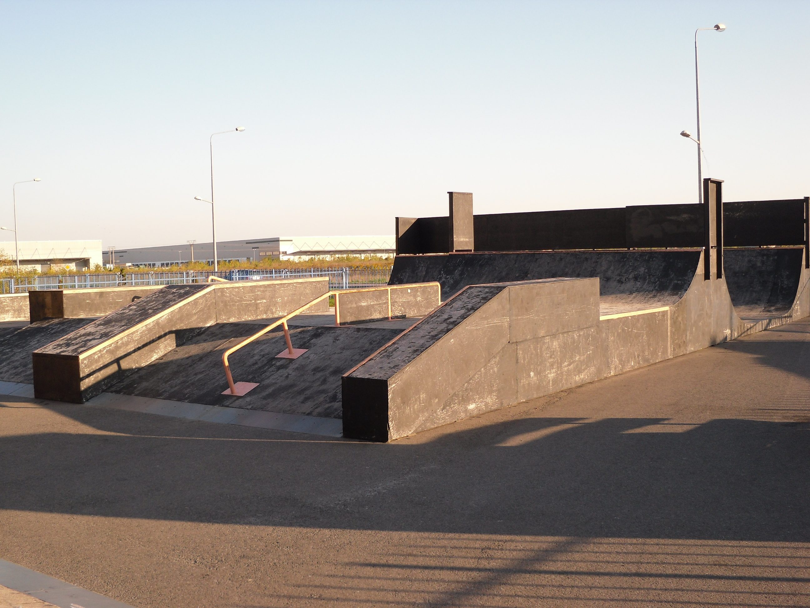 Sochaczew - skatepark